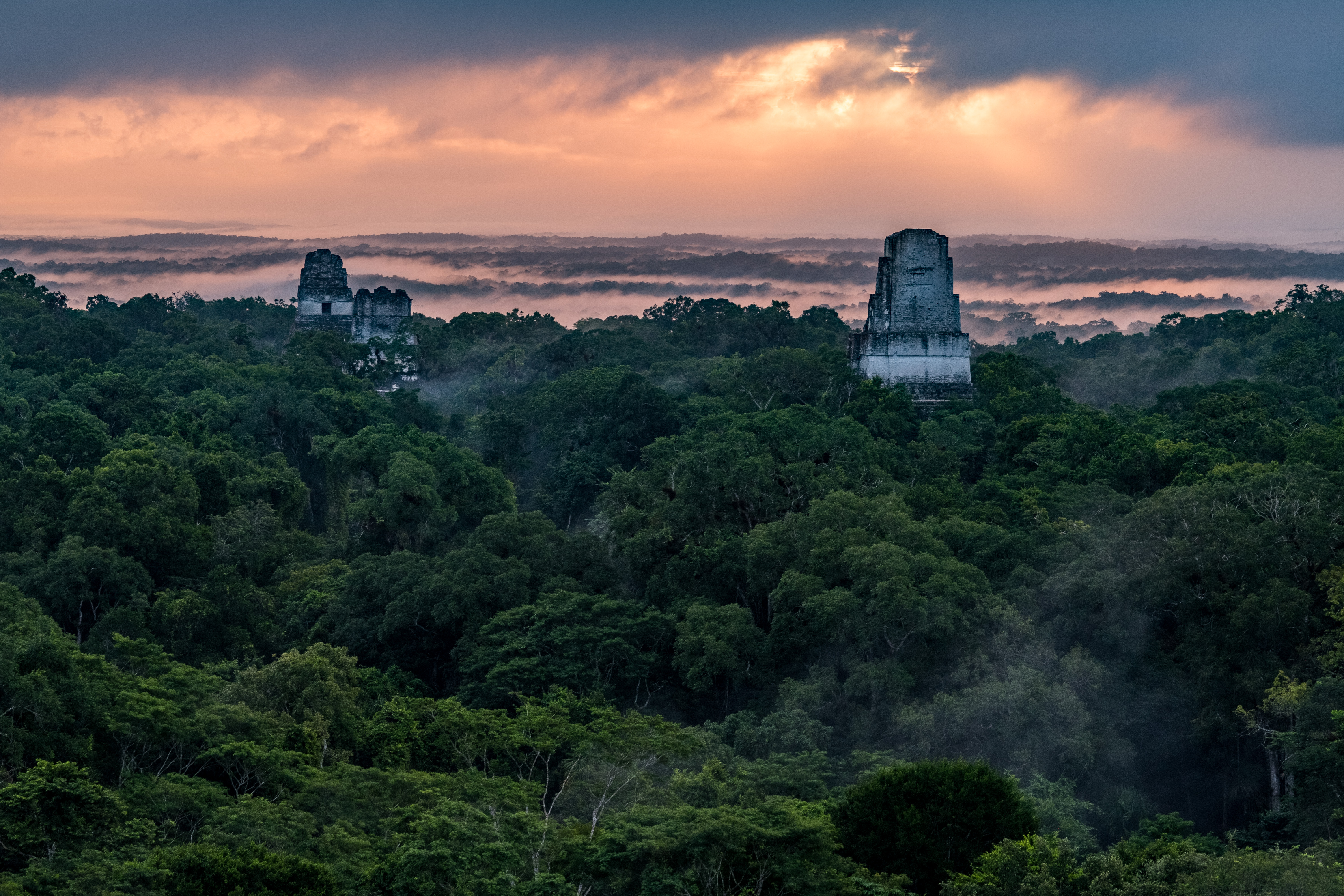 December 2017. Temples in Tikal National Park at sunrise. Tikal, Guatemala. Photograph by Jason Houston for USAID